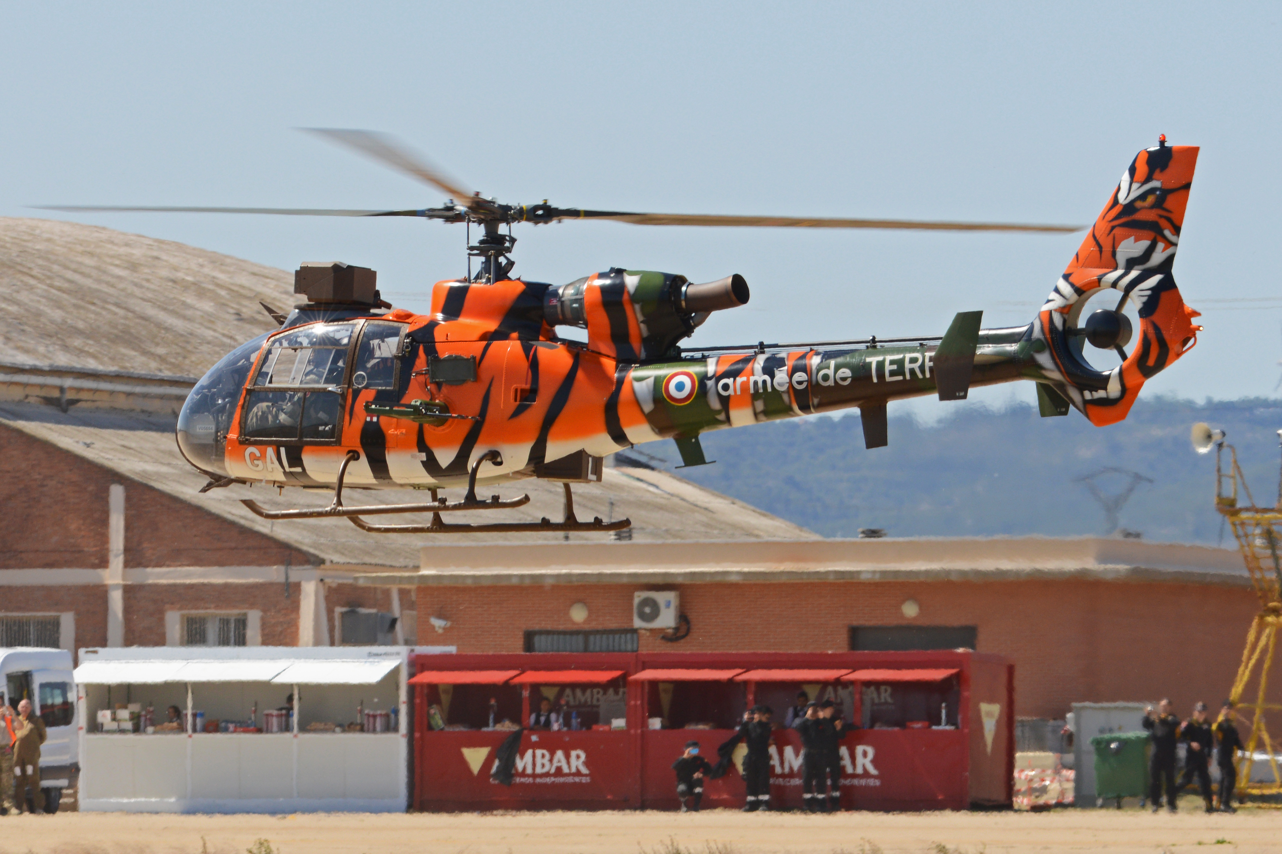 c/n 1862. Callsign F-MGAL. Operated by 3 Régiment d'Hélicoptères de Combat (RHC), French Army, based at Etain/Rouvres. Seen during the 2016 NATO Tiger Meet (NTM) held at Zaragoza Air Base, Spain. 20th May 2016